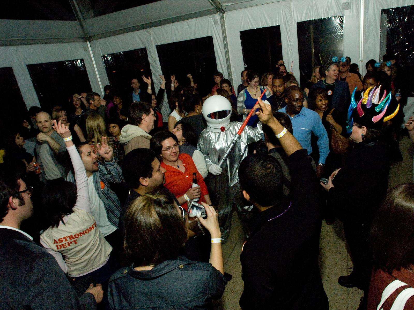 Yuri's Night Dancing Yuri's Night guests danced to music provided by DJ Scientific (Goddard engineer Mark Branch) outside Goddard's Visitor Center. Credit: NASA/Bill Hrybyk